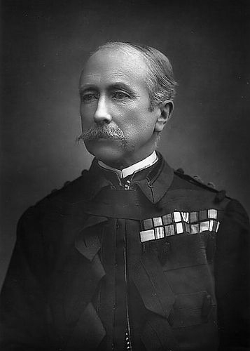 Portrait of General Sir Garnet Wolseley, Woodburytype, 9.7 x 7.1 in (247 mm x 180 mm)